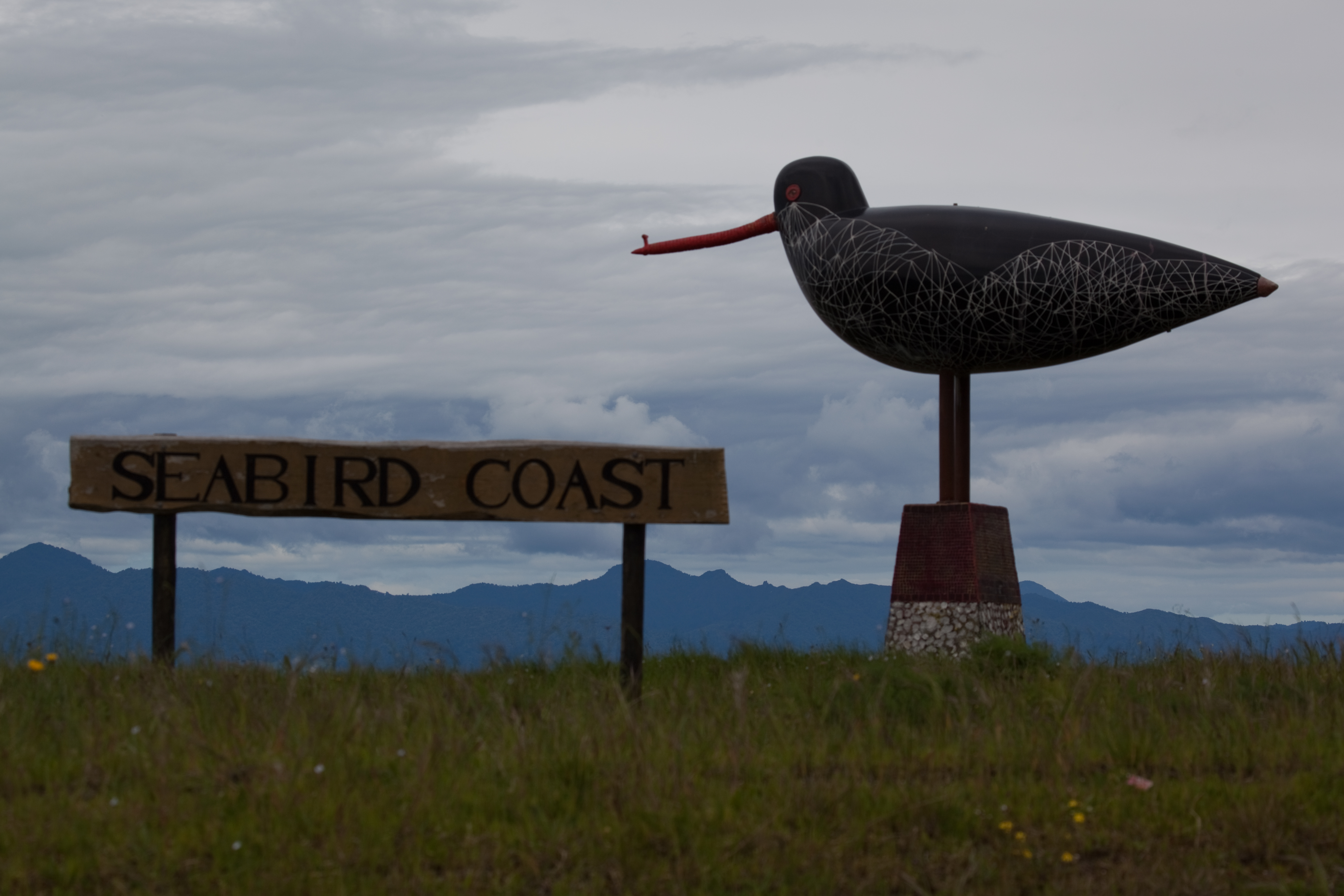 Giant sculpture of an oyster catcher, at Miranda, New Zealand